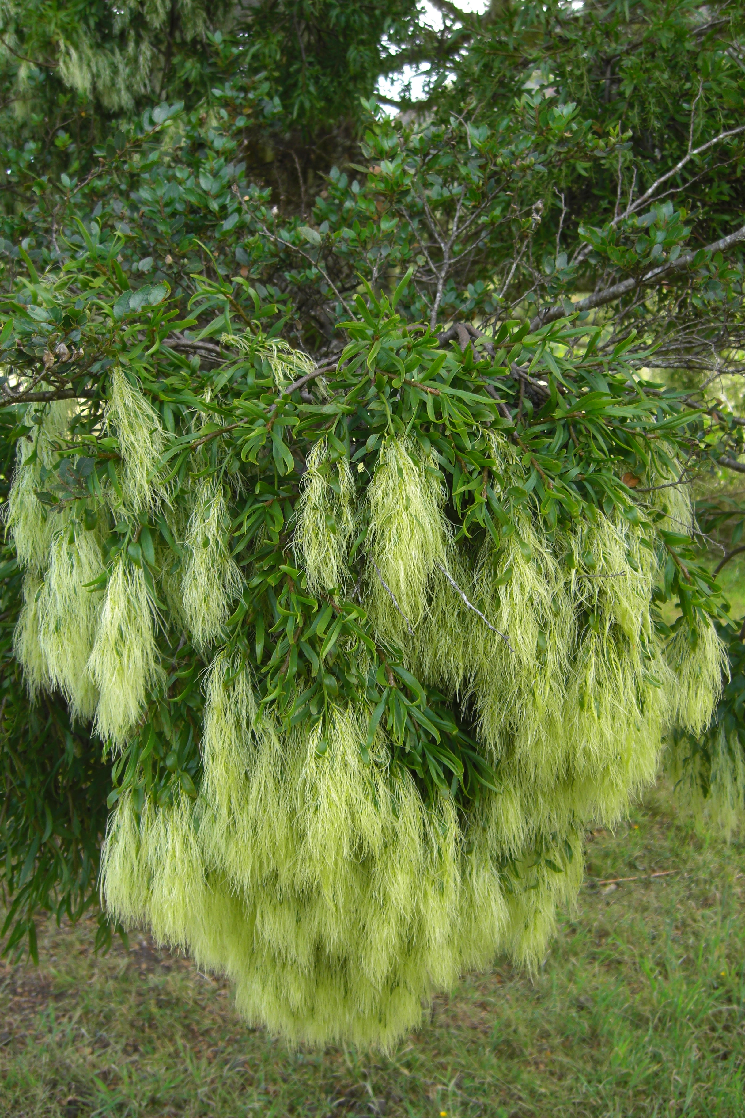 Misodendrum sp. 20081221 Parque Nacional Puyehue, Chile In the Santalaceae. There are too many species and too little relevant information readily available for me to tell which species it is for sure. This was on (I believe) a Nothofagus dombeyii at the "Ultimo Puesto" in Parque Nacional Puyehue, Anticura sector (along the Sendero Chile).